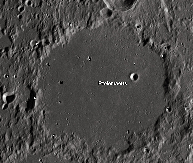 Ptolemaeus lunar crater as seen from Earth with satellite craters labeled